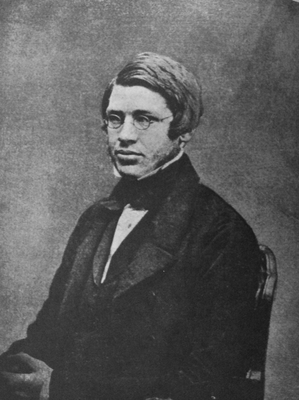 A.R. Wallace (age 24), 1848